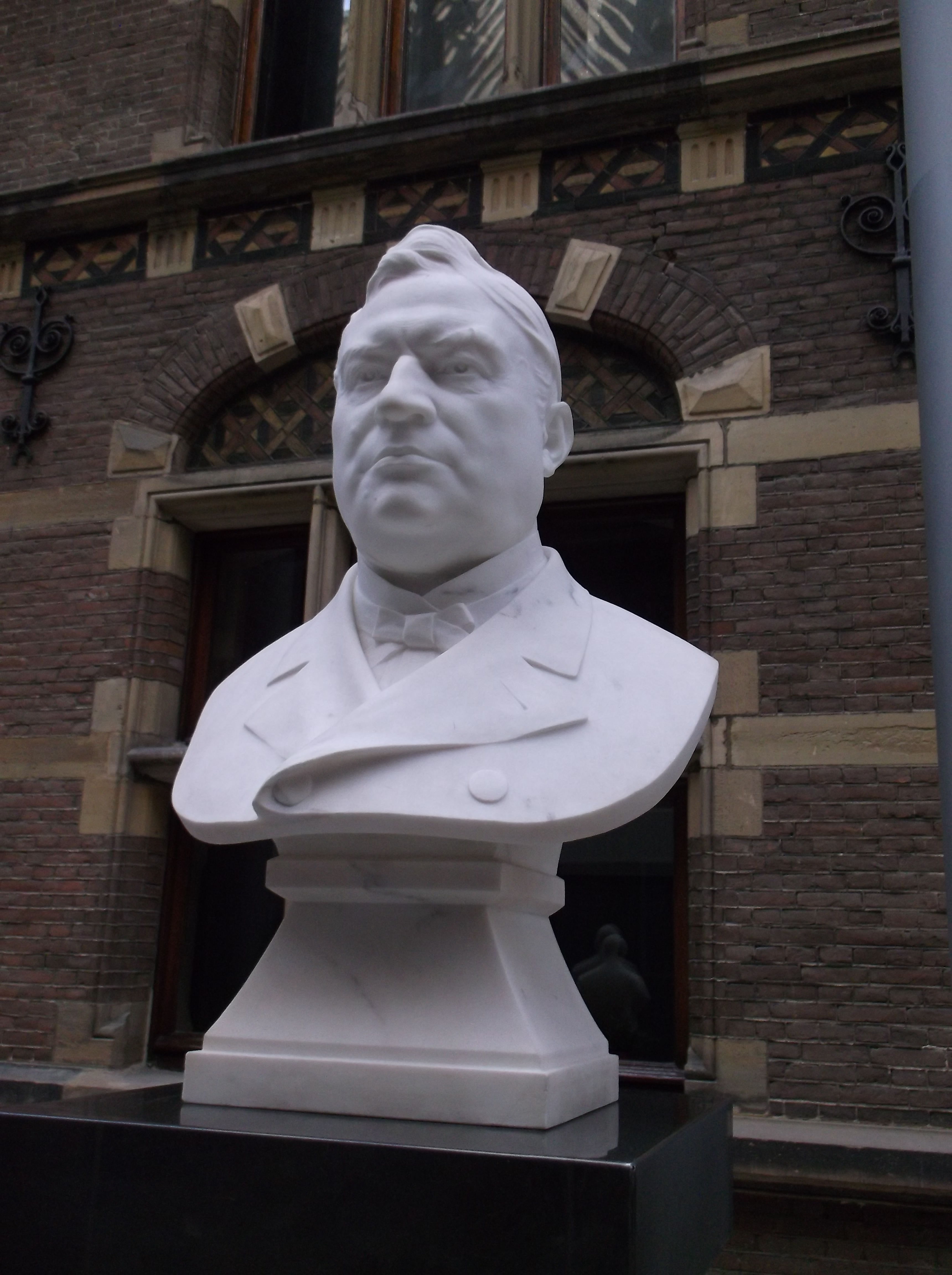 Buste in the Statenpassage in the building of the Dutch lower house.